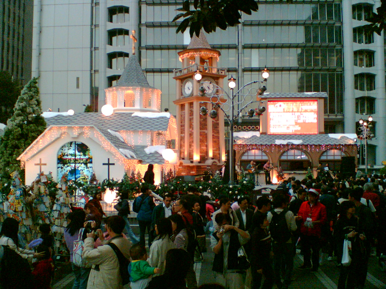 2005 Hong Kong WinterFest, taken by User:Minghong (December 10 2005).